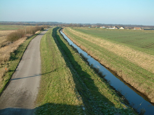 Cheshire Lines Cycle-way. Taken from Moss Bridge, looking north west.